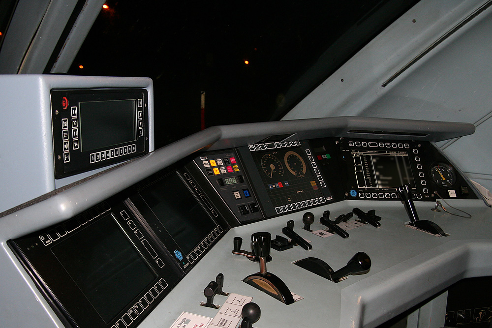 Driver's cab on an ICE 1, refitted with ETCS controls.